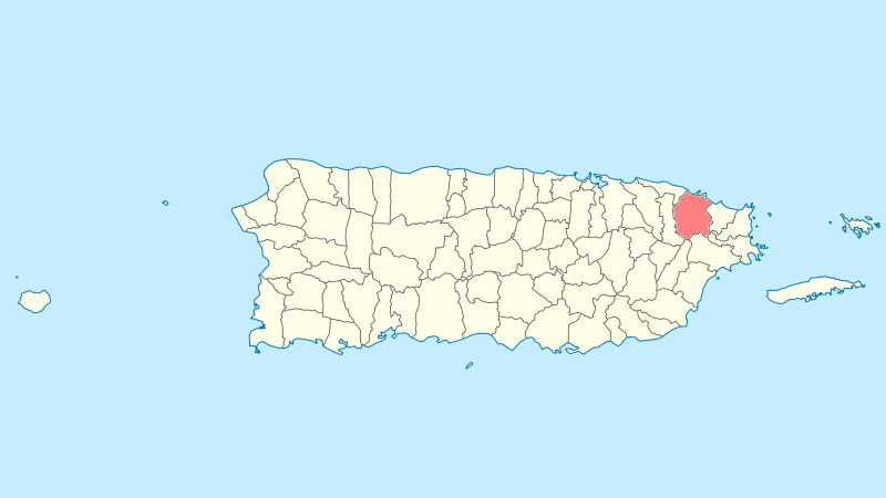 Municipal locator of Puerto Rico